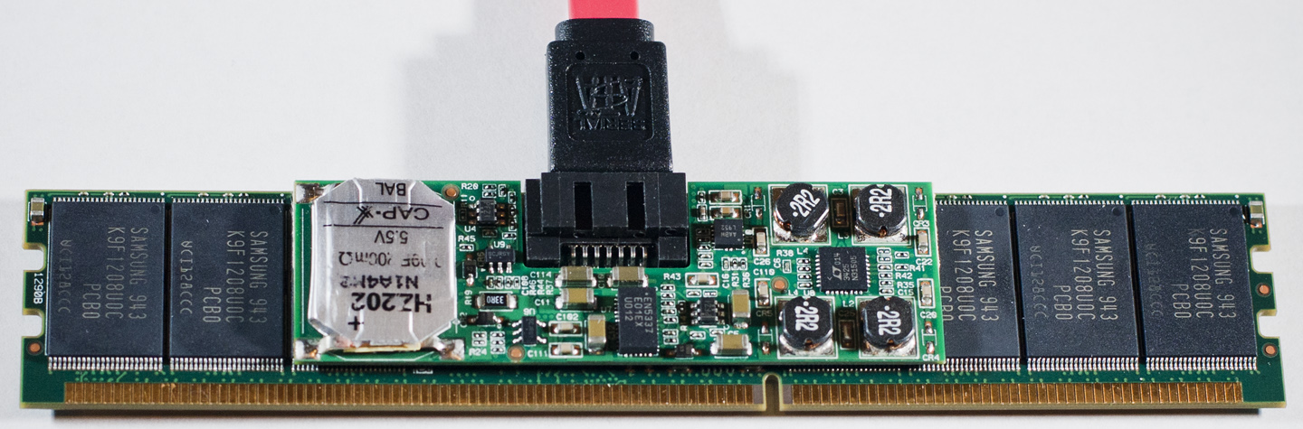 Image of SATA SSD from Viking Modular called SATADIMM. Uses a separate SATA interface cable for data lines and the DIMM connector provides power and the mounting.